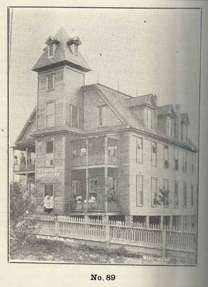 The Tuggle Institute, a boarding school for African American children in Birmingham Alabama, pictured in 1906.